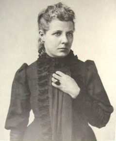 Dr. Annie Besant established the Sri Pratap College